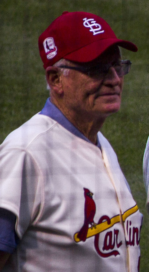 5-17-17 St.Louis Cardinals 1967 World Series Reunion.